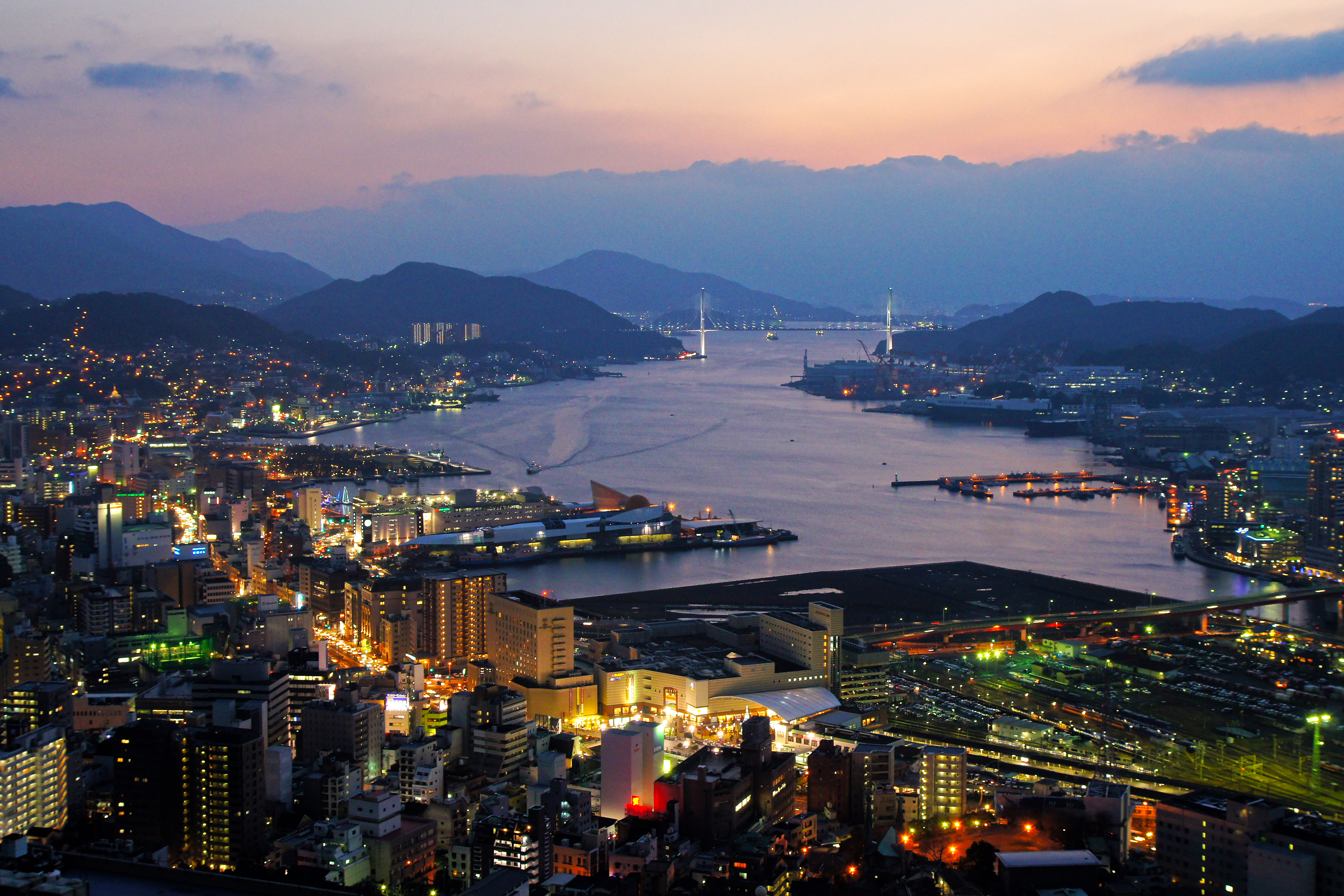 A Nagasaki City view from Hamahira, Nagasaki, Nagasaki prefecture, Japan